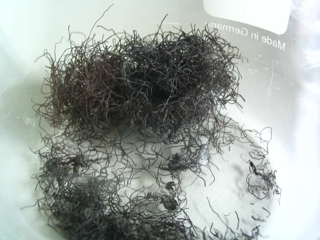 Any kind of brown algae. Self-photography